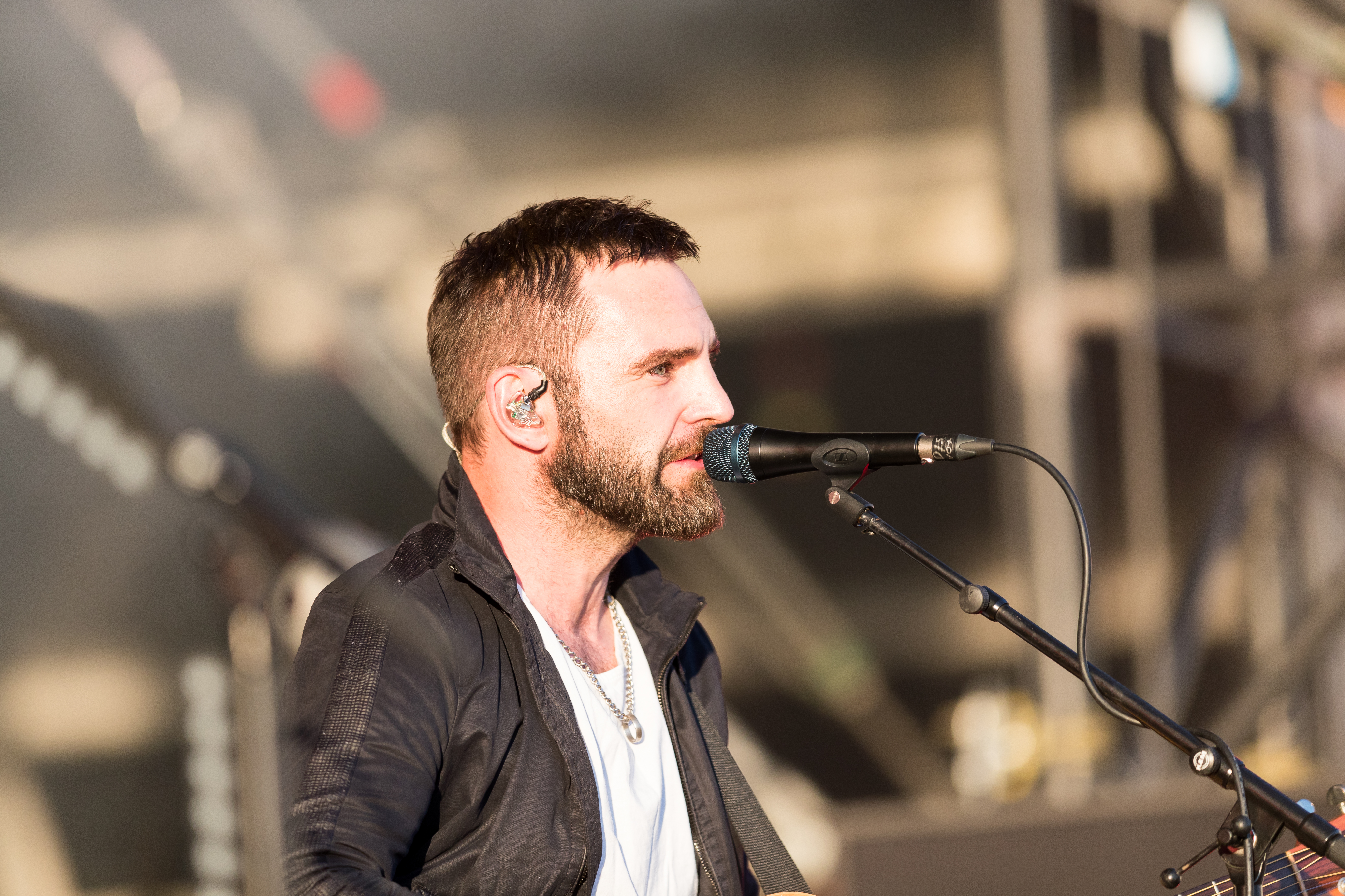 Snow Patrol @ Rock am Ring 2018